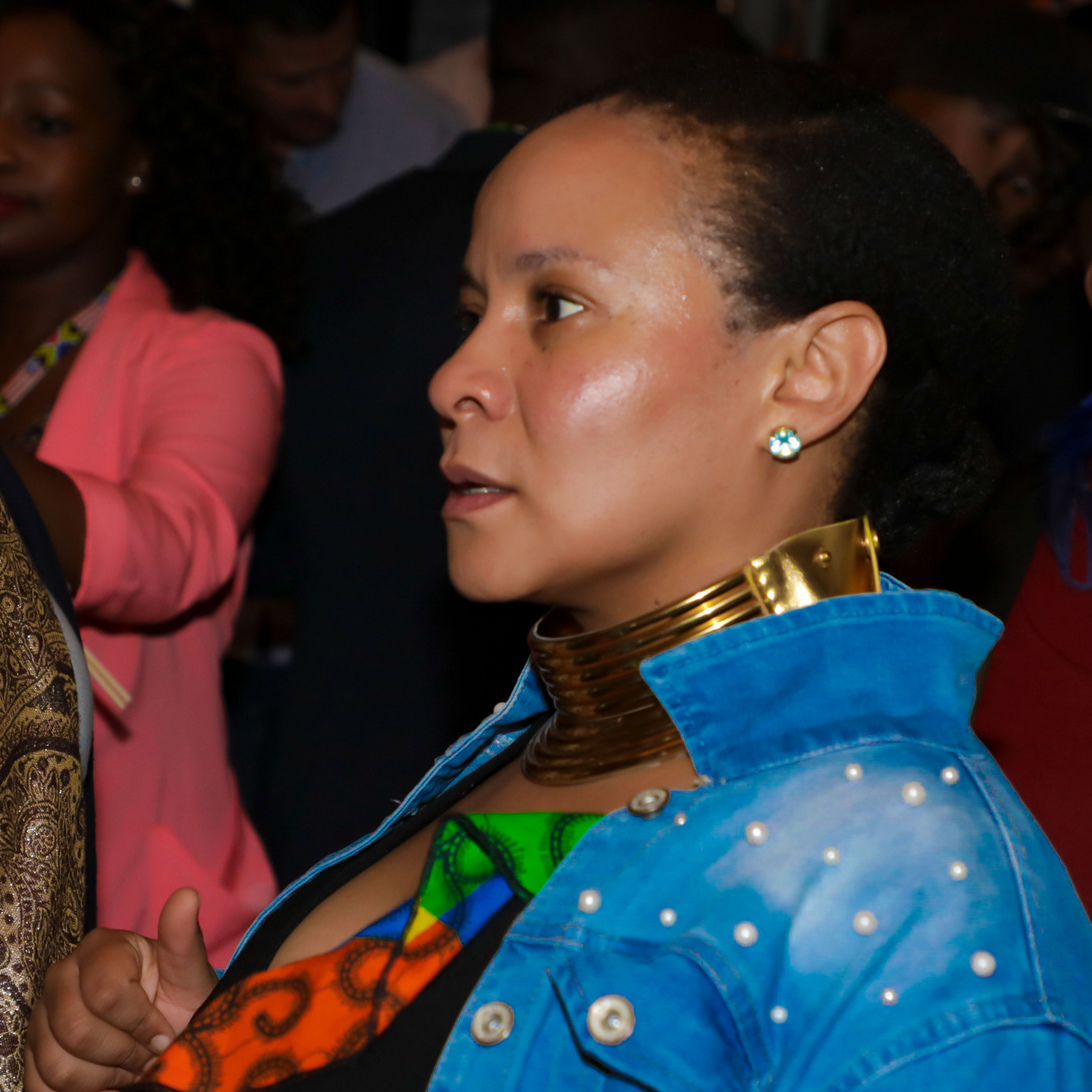 Lebogang Mashile South African actor, writer and performance poet.